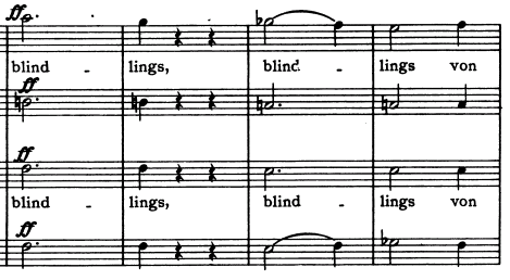 J. Brahms, Schicksalslied, Opus 54. Choral Excerpt 4.